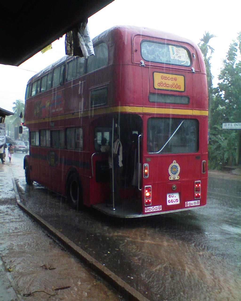 A double-decker bus plying in the 122 route from Maharagama to Avissawella, stopped at Godagama junction in Homagama, Sri Lanka.